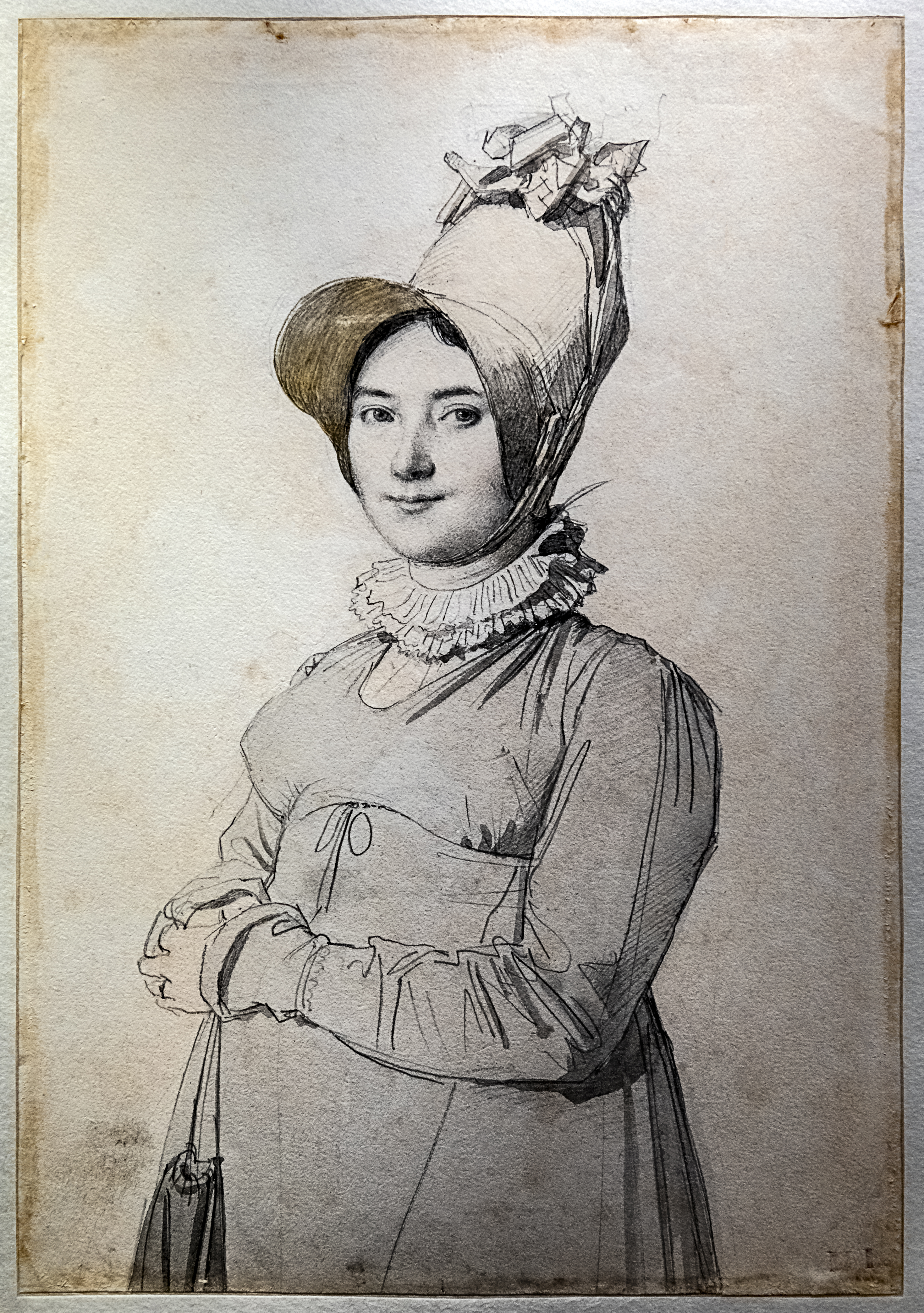 Madeleine Chapelle (1782-1849), milliner in Guéret, was put in contact with Ingres by her cousin, Adèle de Lauréal, in 1813. After some exchanges of letters, Madeleine decided to marry the kind painter who asked for her hand without knowing it. . She arrived in Rome in September and the marriage was celebrated on December 4, 1813, at the Church of San Martino ai Monti. Ingres often took her as a model.